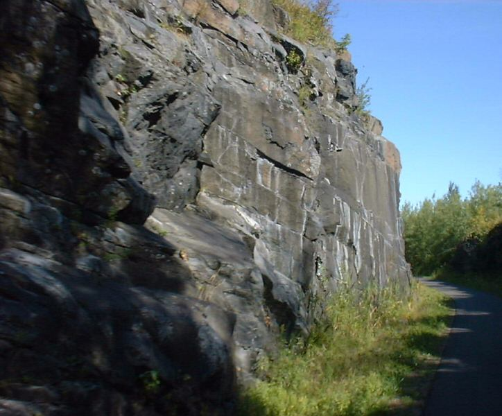 A view of the Willard Munger State Trail going through a rock cut between Carlton and Duluth.